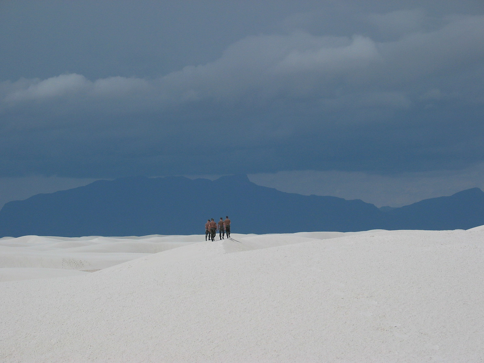 Soldiers at White Sands National Monument.